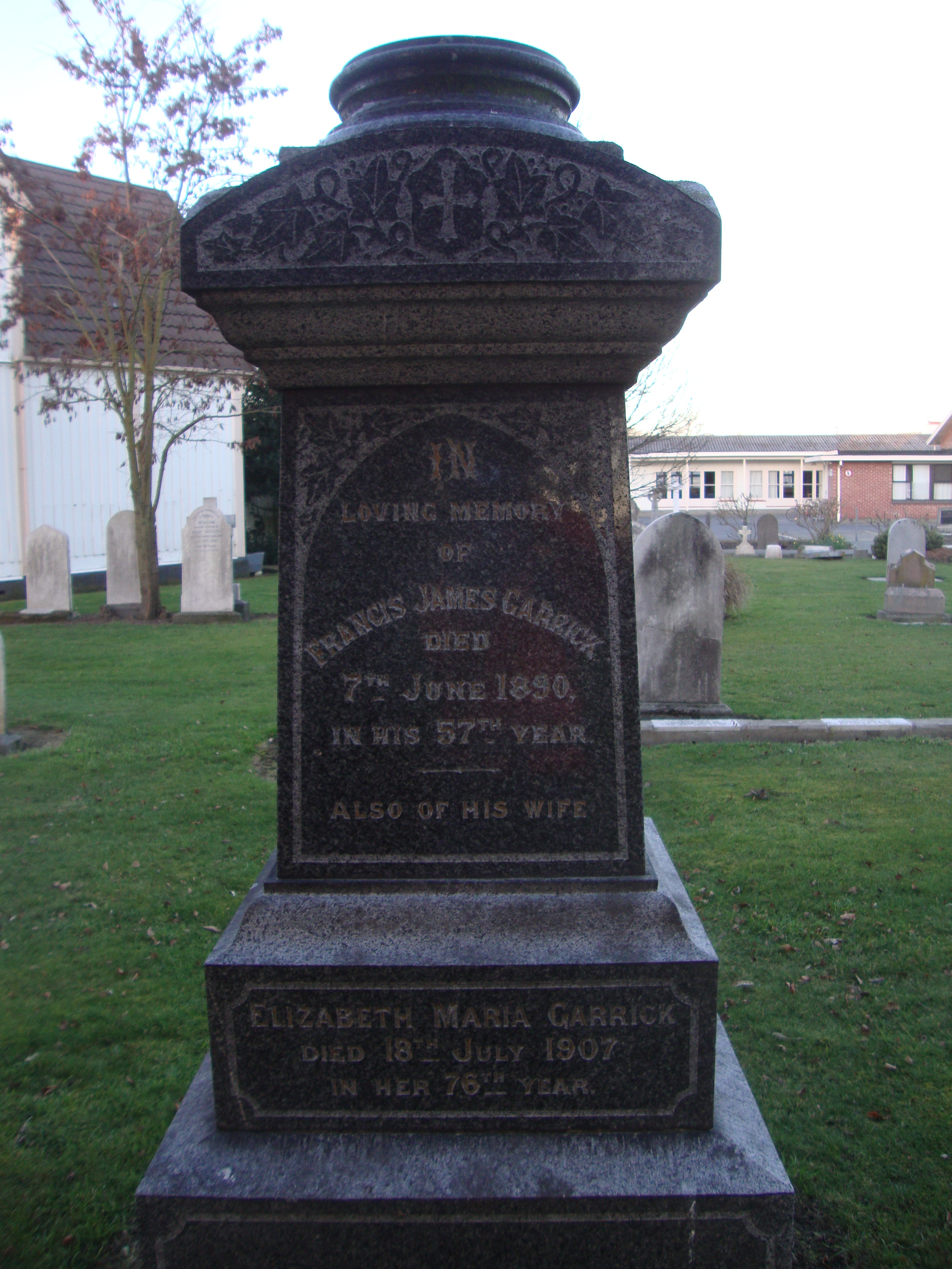 Francis James Garrick grave at St Paul's Church in Papanui, Christchurch.